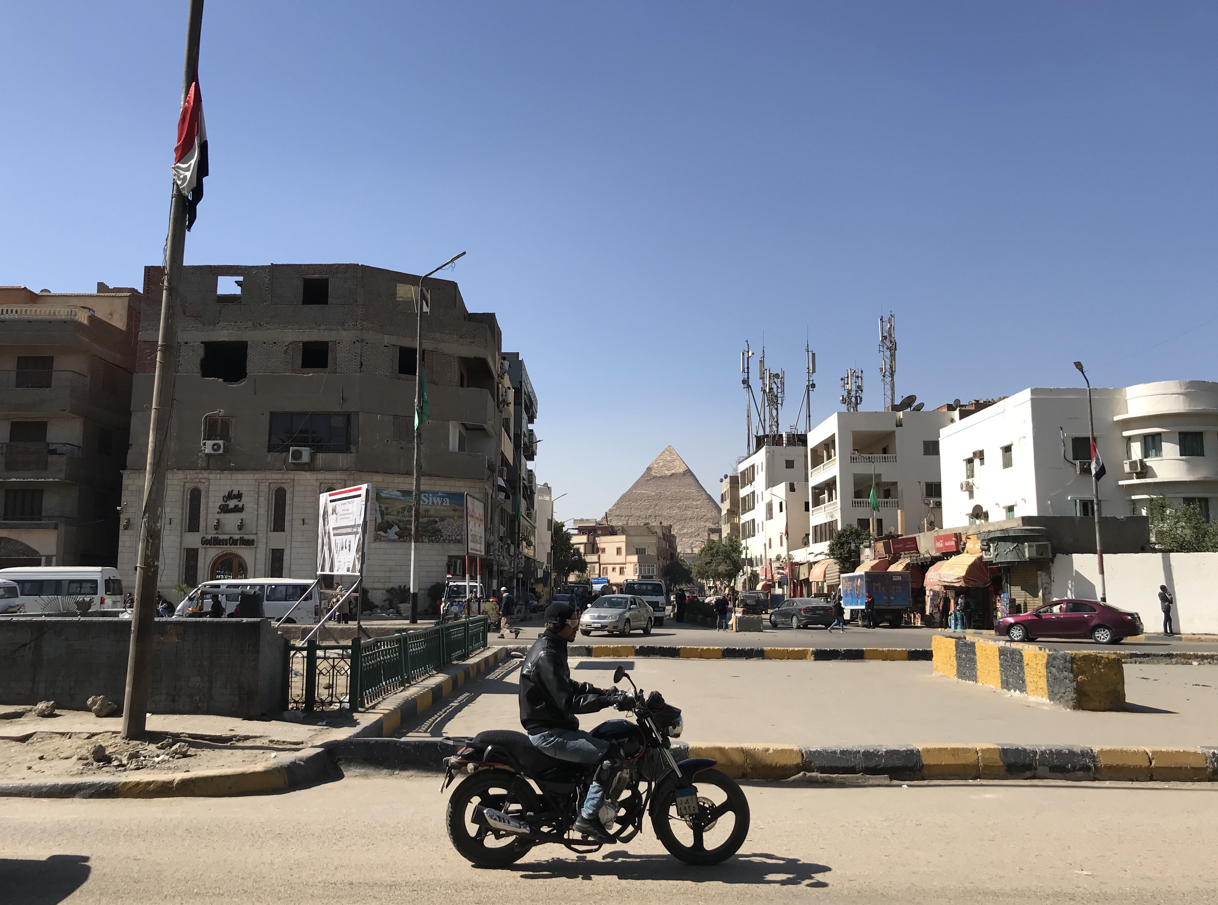 A man travels on a motorcycle in Giza town, Cairo Egypt. This is an image with the theme "Africa on the Move or Transport" from: Egypt